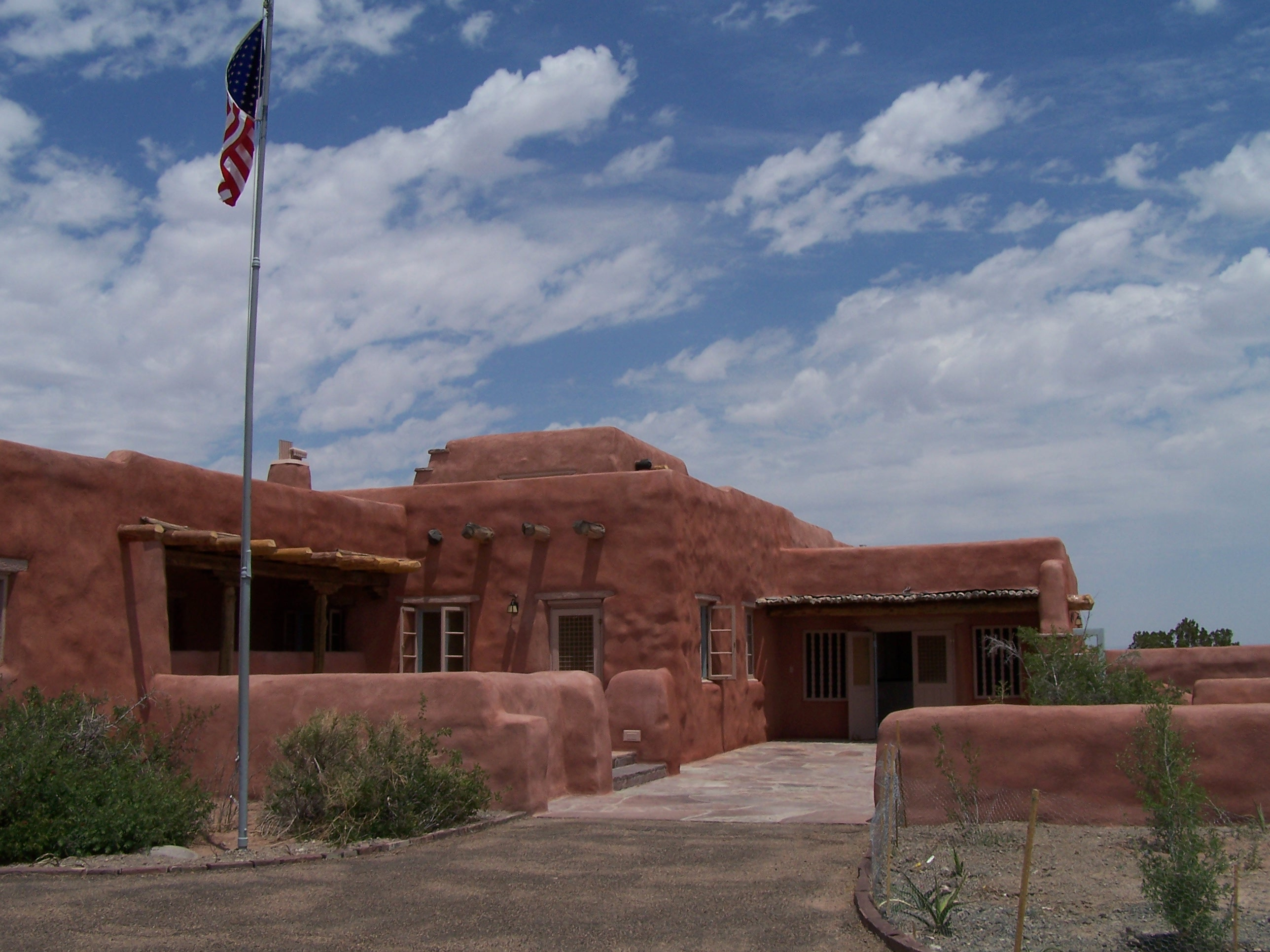 Painted Desert Inn, entrance terrace to main lodge — located in the Painted Desert, within Petrified Forest National Park, Apache County, Arizona. The 1940 Category:Pueblo Revival style inn is on the National Register of Historic Places in Petrified Forest National Park. Credits National Park Service photo of the Painted Desert Inn From Photo credit: NPS/Marge Post Public domain photo